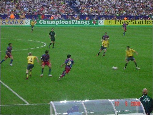 action pic arsenal vs Henri Cl final 2006 in Paris. photo is my own and i release it etc